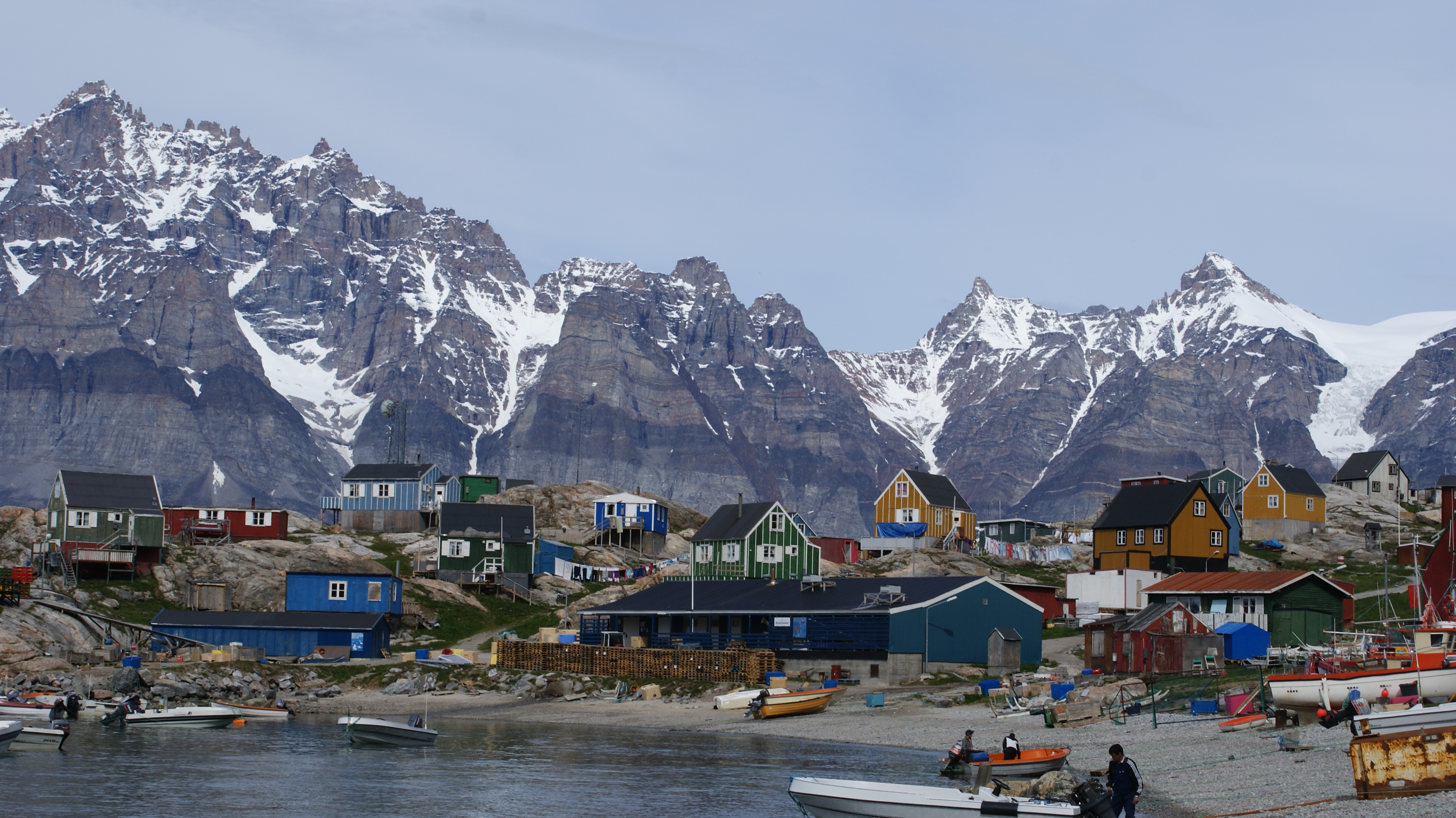 Ukkusissat, a settlement in the Uummannaq Fjord System, northwestern Greenland